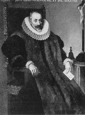 Lodovico Melzi, "vicario di provvisione" of Milan in 1628